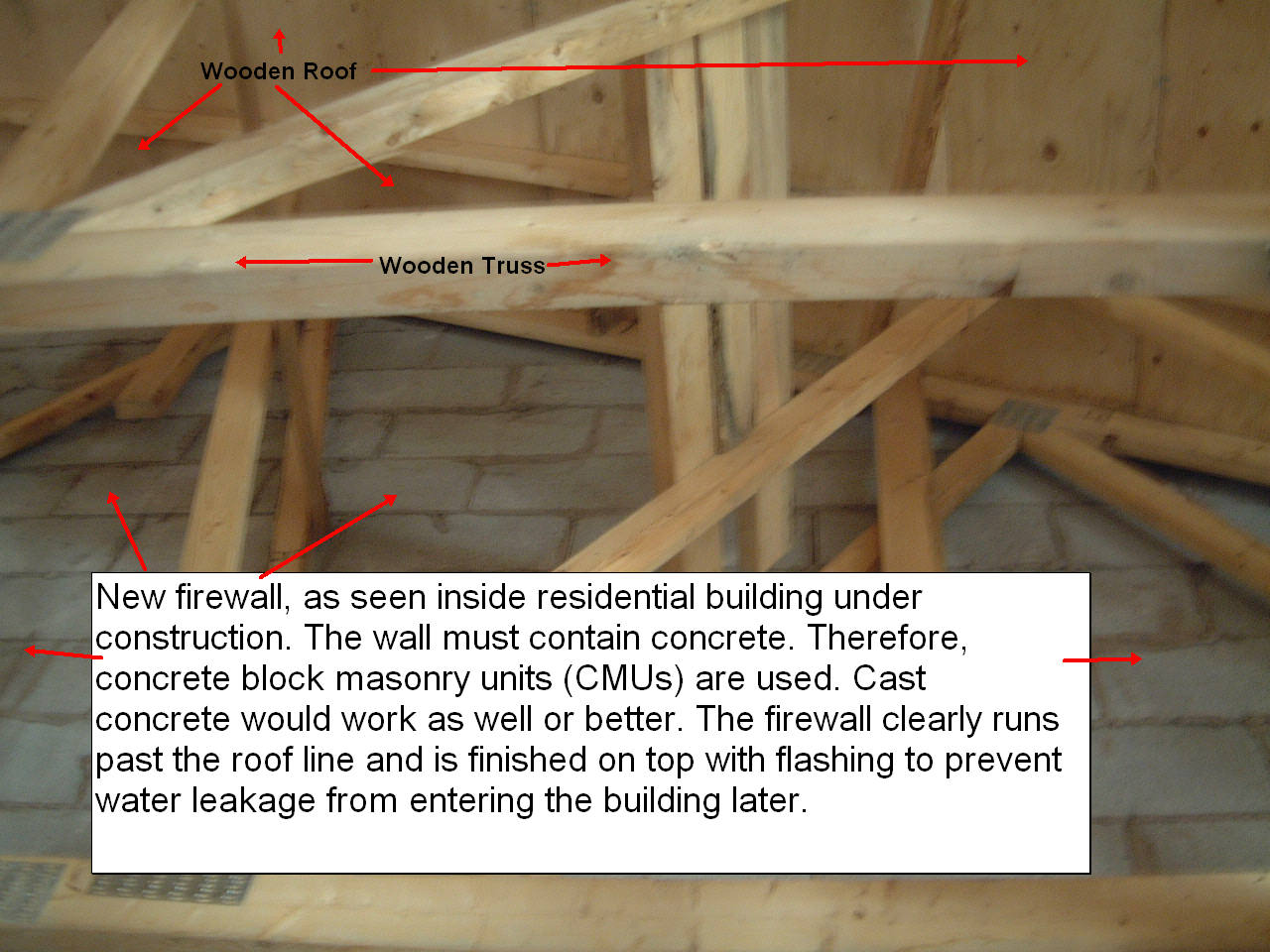 Inside view of firewall made of concrete blocks, protruding through roof in Canadian apartment building.